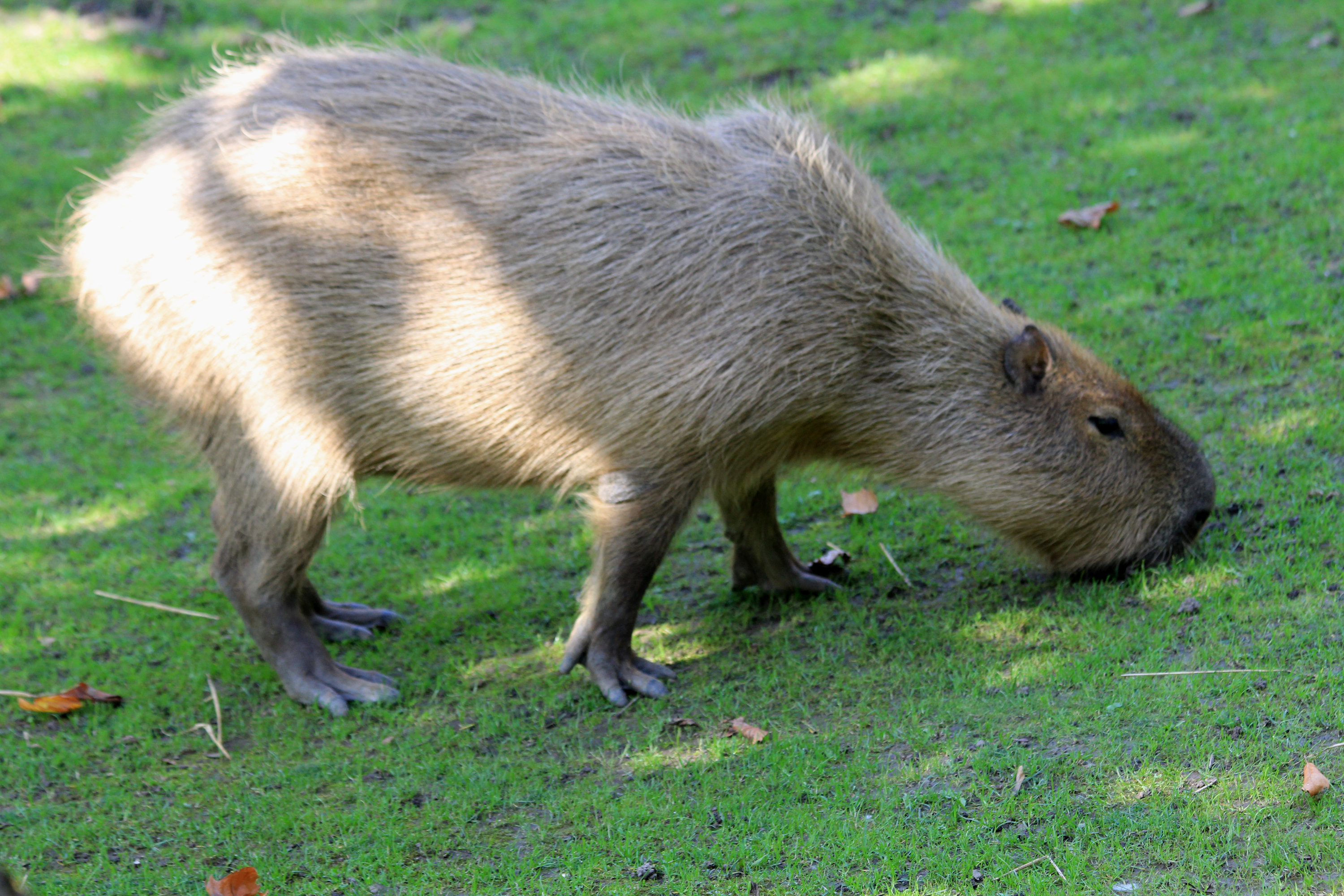 Capybara (Hydrochoeris hydrochaeris) in Prague Zoo, Czech Republic